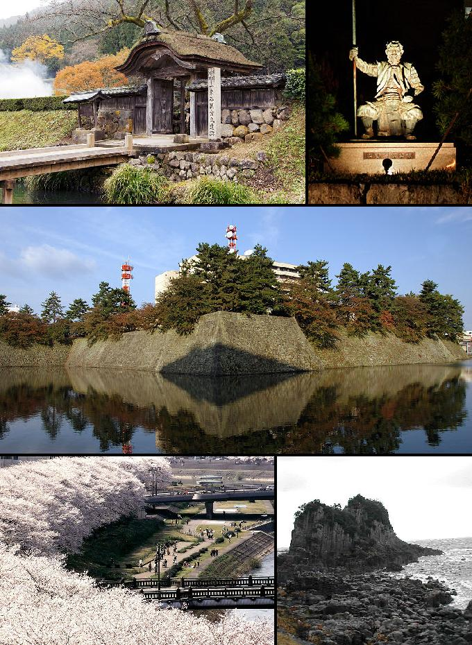 From top left: Ichijōdani Asakura Family Historic Ruins, Kitanosho Castle Park, Fukui Castle, Asuwa River, Echizen-Kaga Kaigan Quasi-National Park